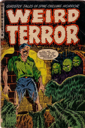 Weird Terror #1 (Sept. 1952) This is an Example of the earliest professional work of the comic-book artist Don Heck.